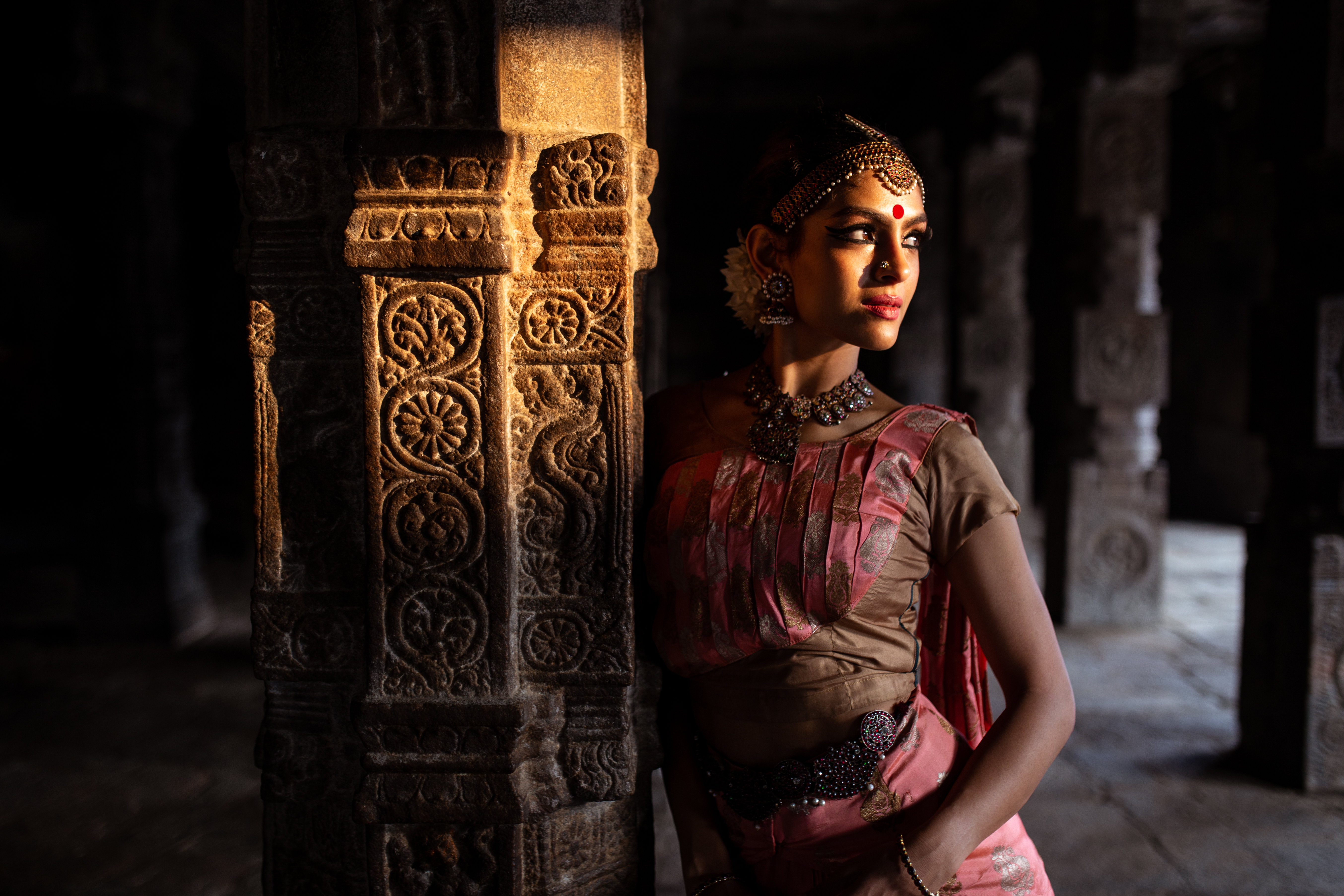 Photo Credit: Sunny Jagesar